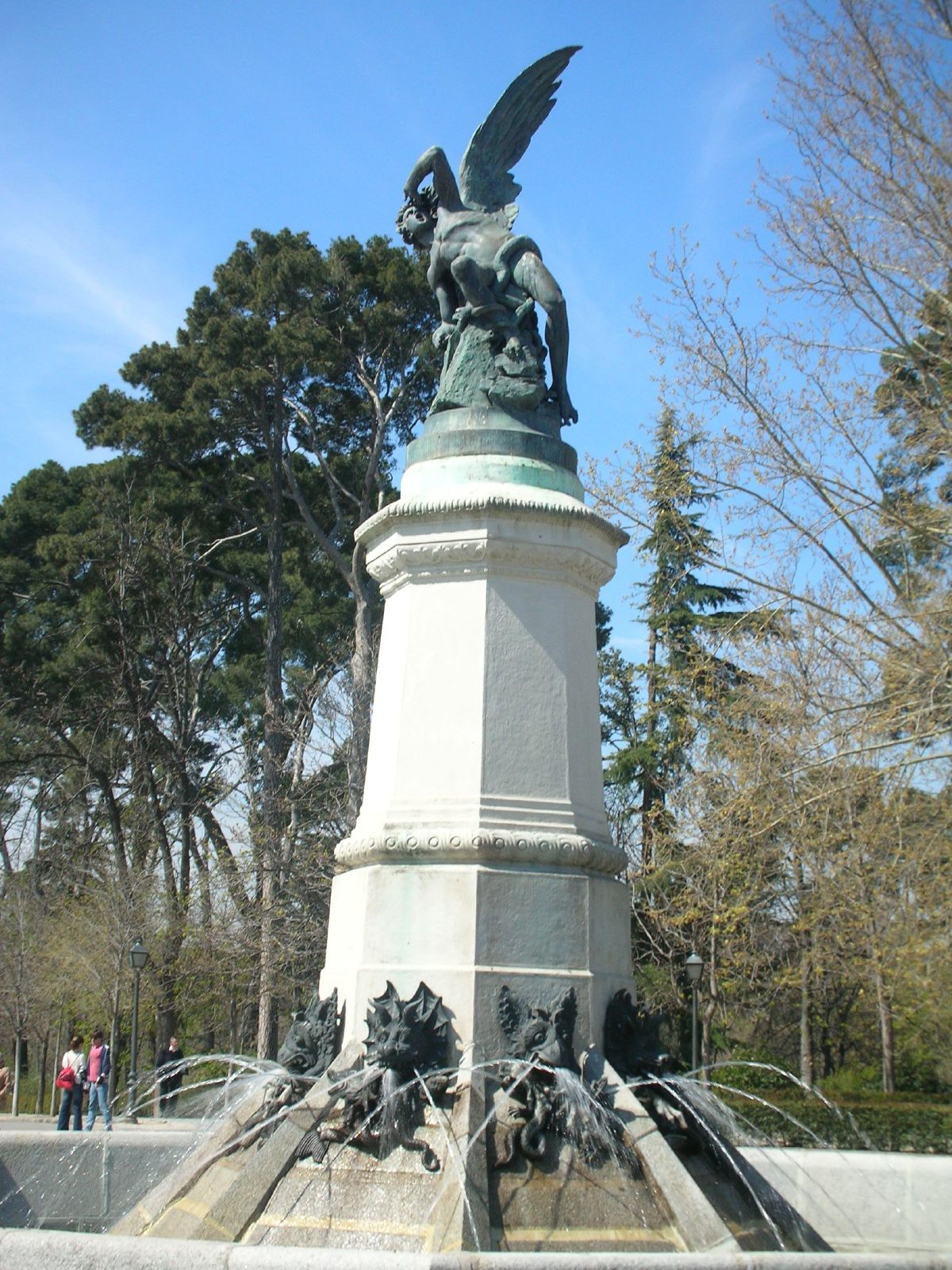 Fountain of the Fallen Angel, in the Retiro Park (Jardines del Buen Retiro) in Madrid (Spain).